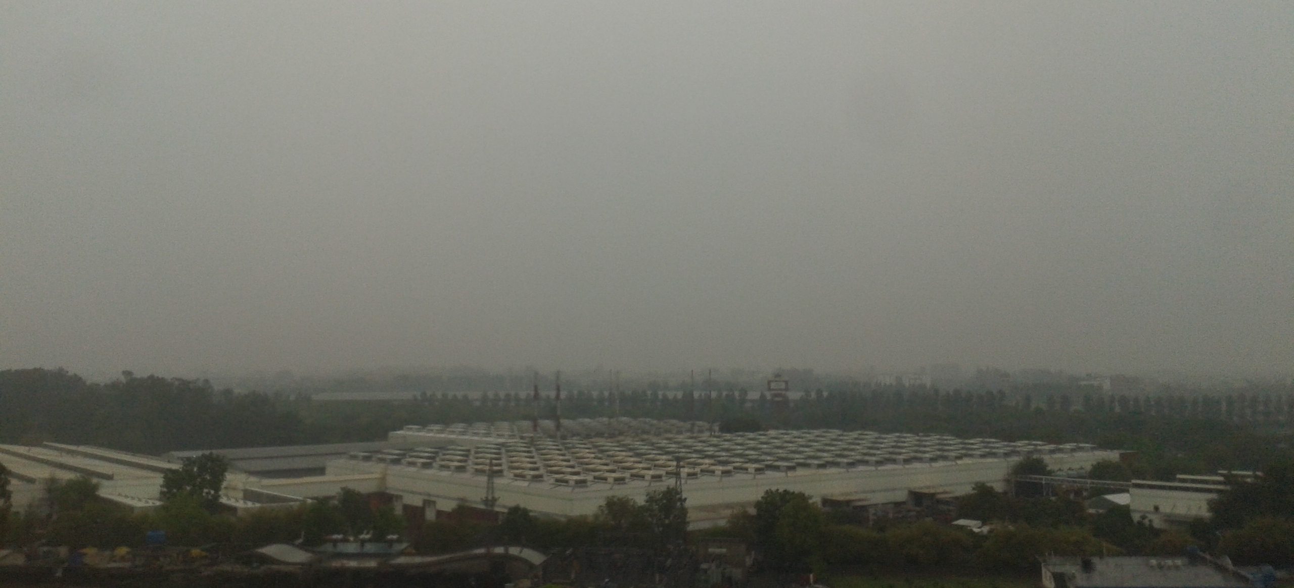 Cloudy Mohali